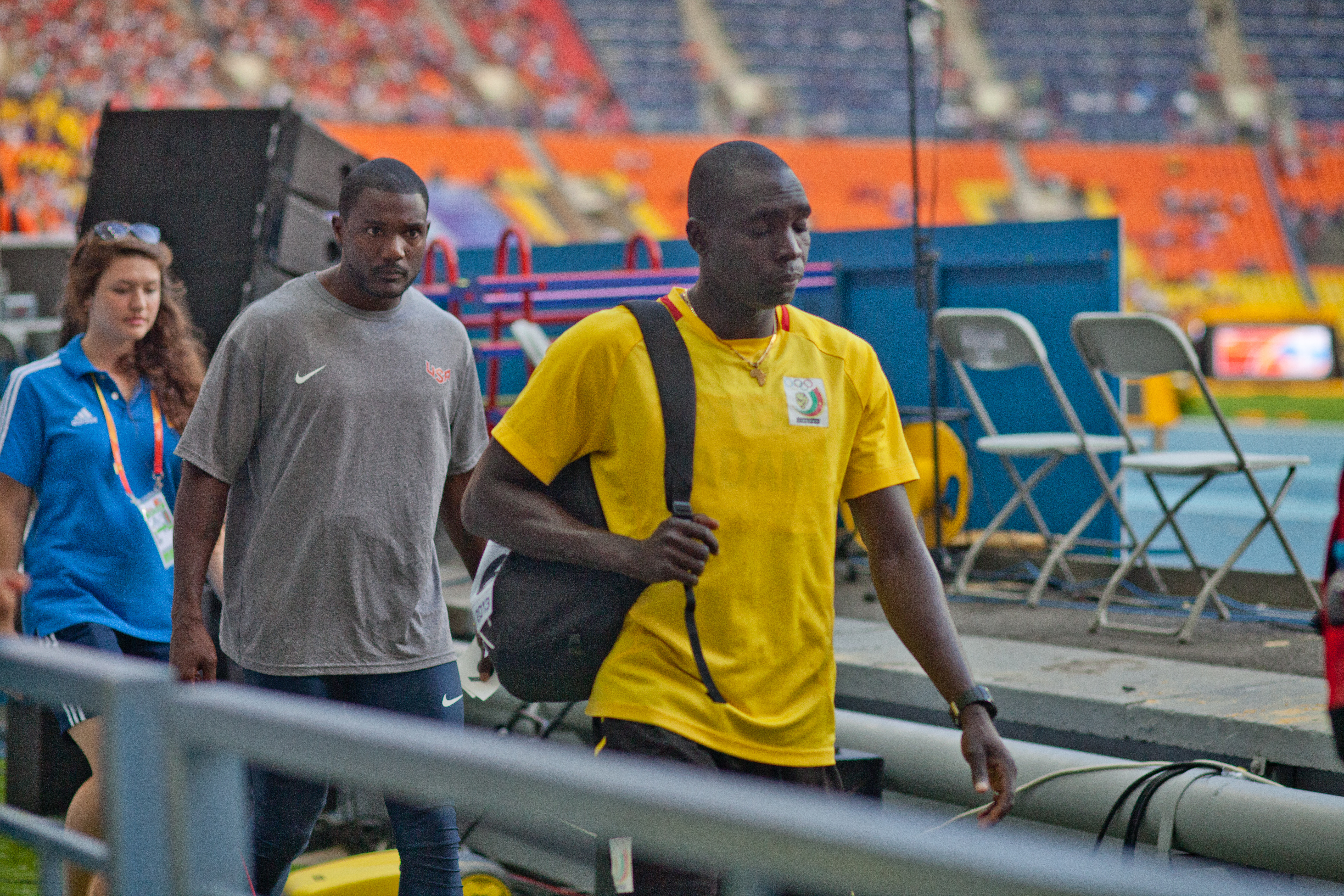 Justin Gatlin and Idrissa Adam during 2013 World Championships in Athletics in Moscow.